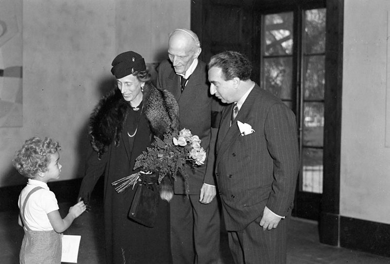 Swedish artist Isaac Grünewald (right) with his young son Björn, Crown Princess of Sweden Louise and Prince Carl at Liljevalchs konsthall 1944 - SvD 34509Stadsmuseet i Stockholm